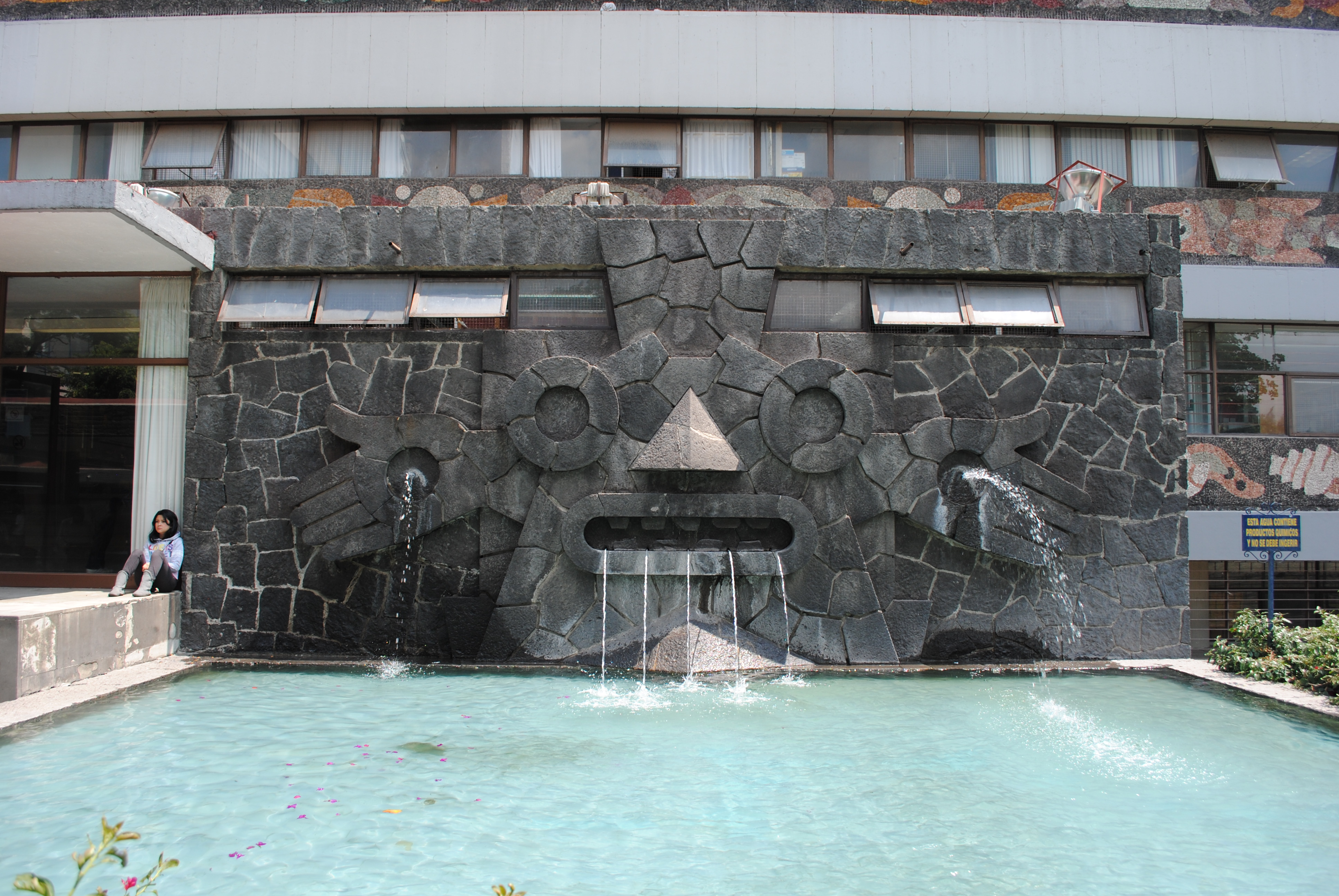 Tlaloc's fountain in the Central Library of UNAM.